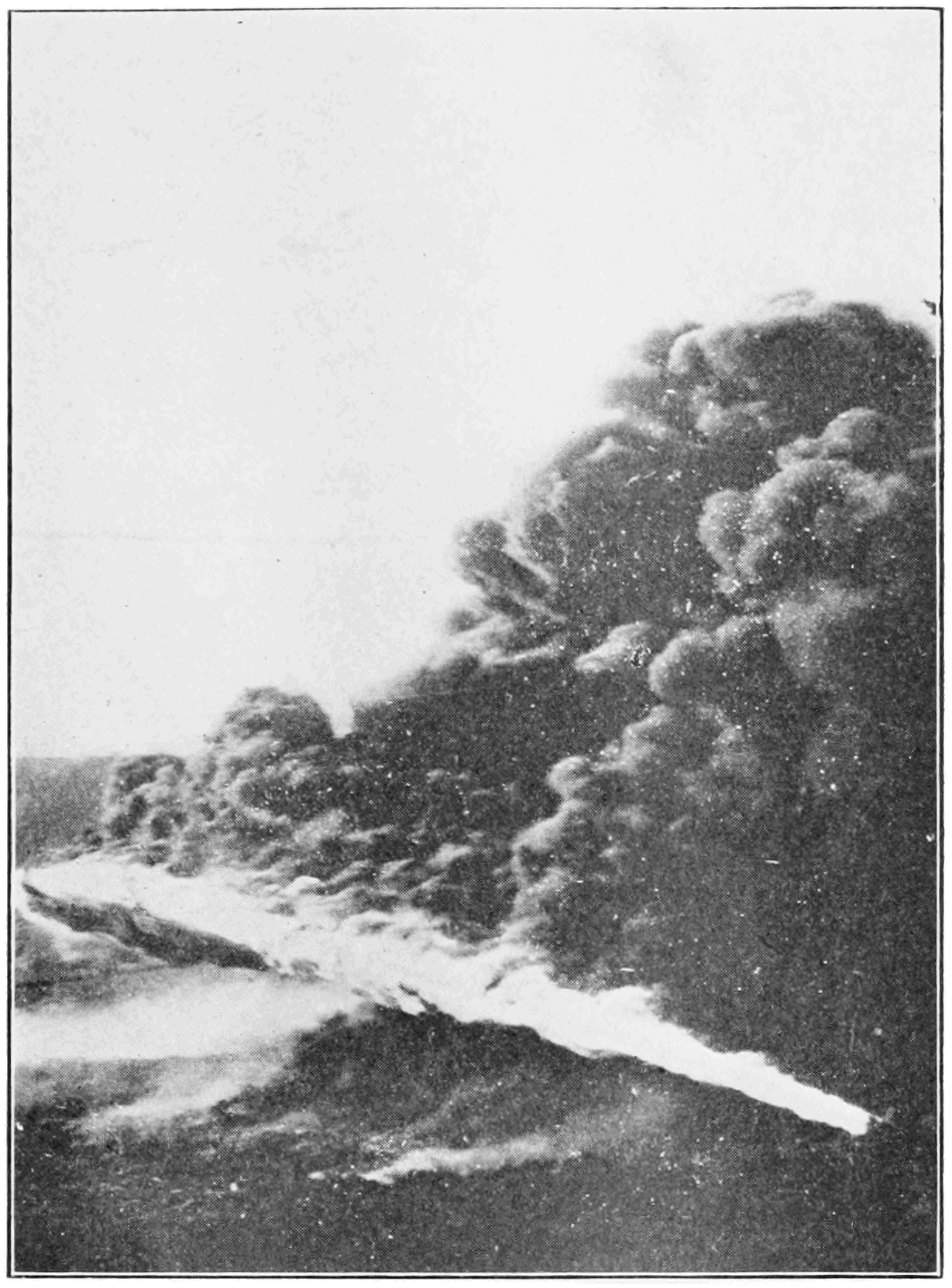 Flame thrower used by the Germans to repulse attacks in WW 1